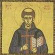 Icon for Template:Saint-stub